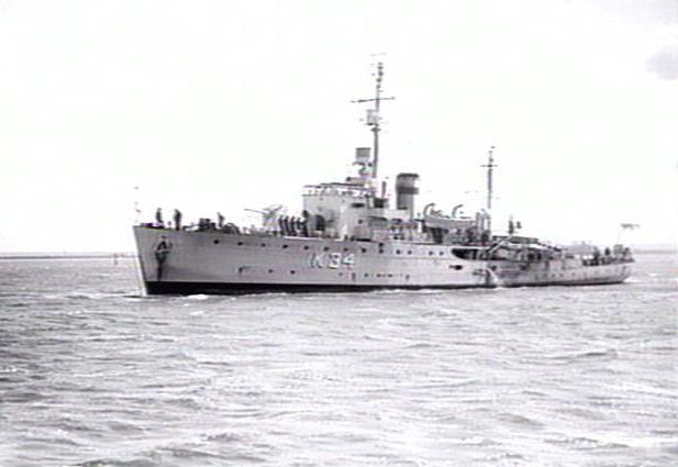 Photograph of Australian Bathurst class corvette HMAS Ararat.